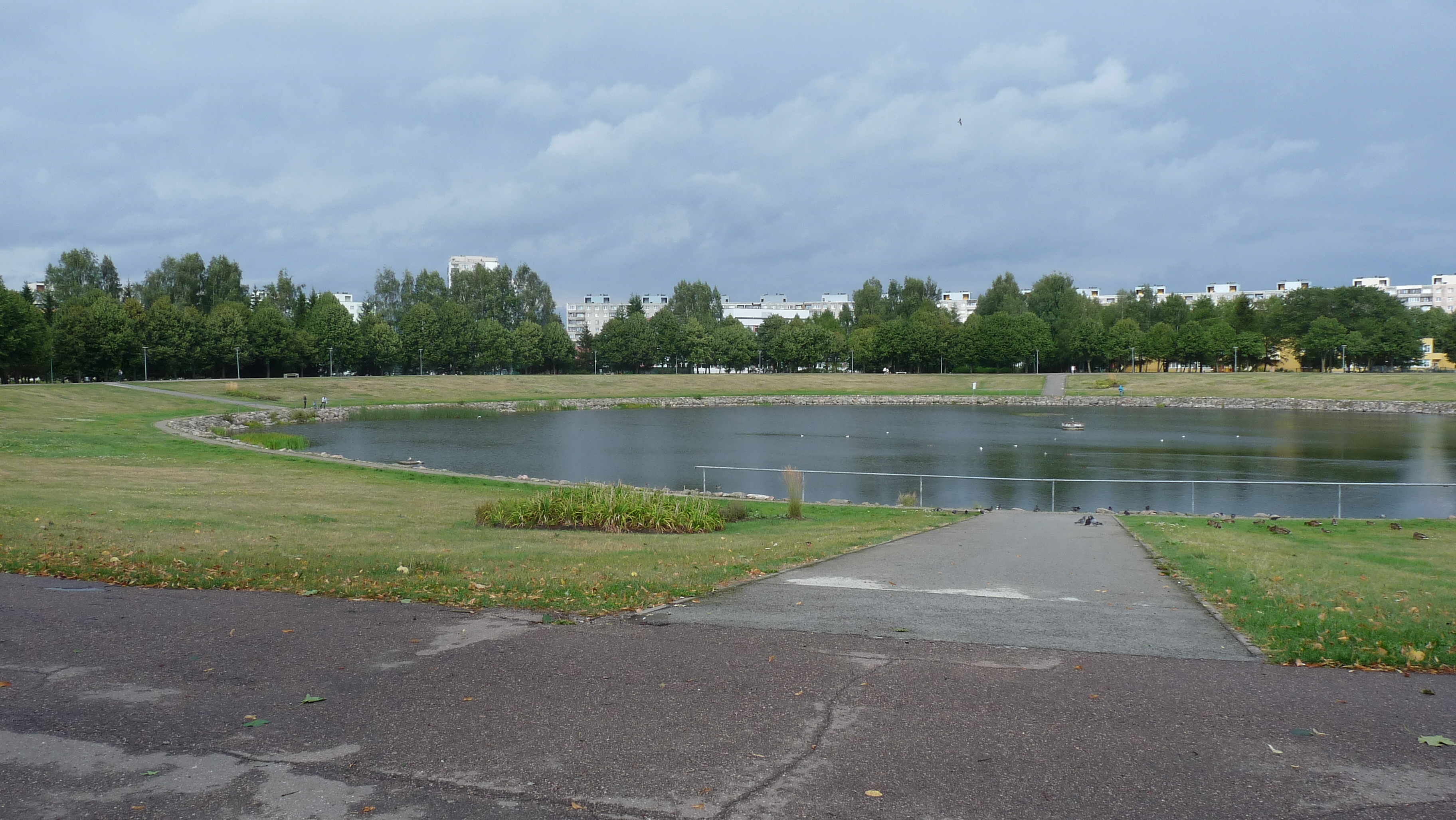 Pond in Väike-Õismäe